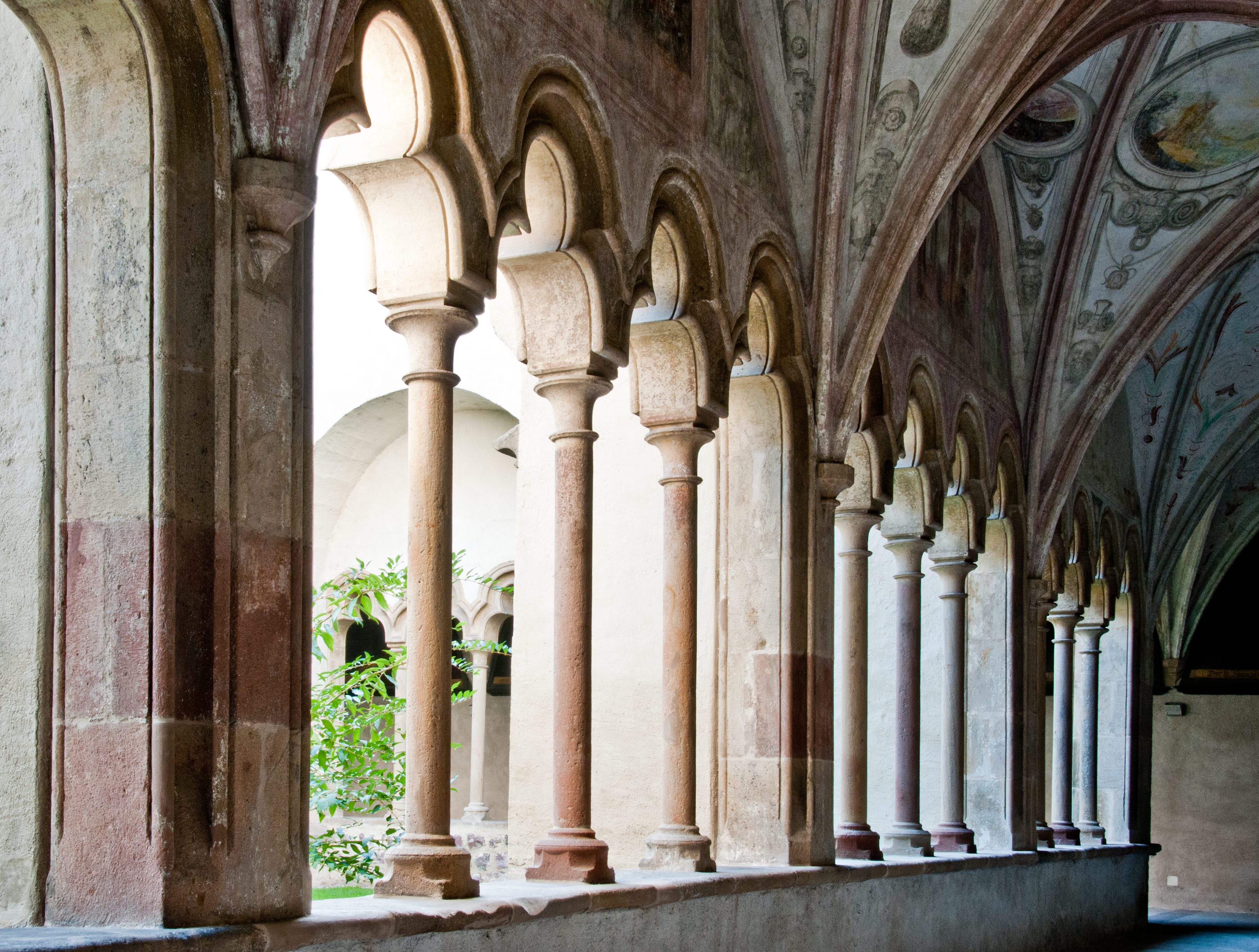 The cloister. Franciscan's church Bolzano / Bozen